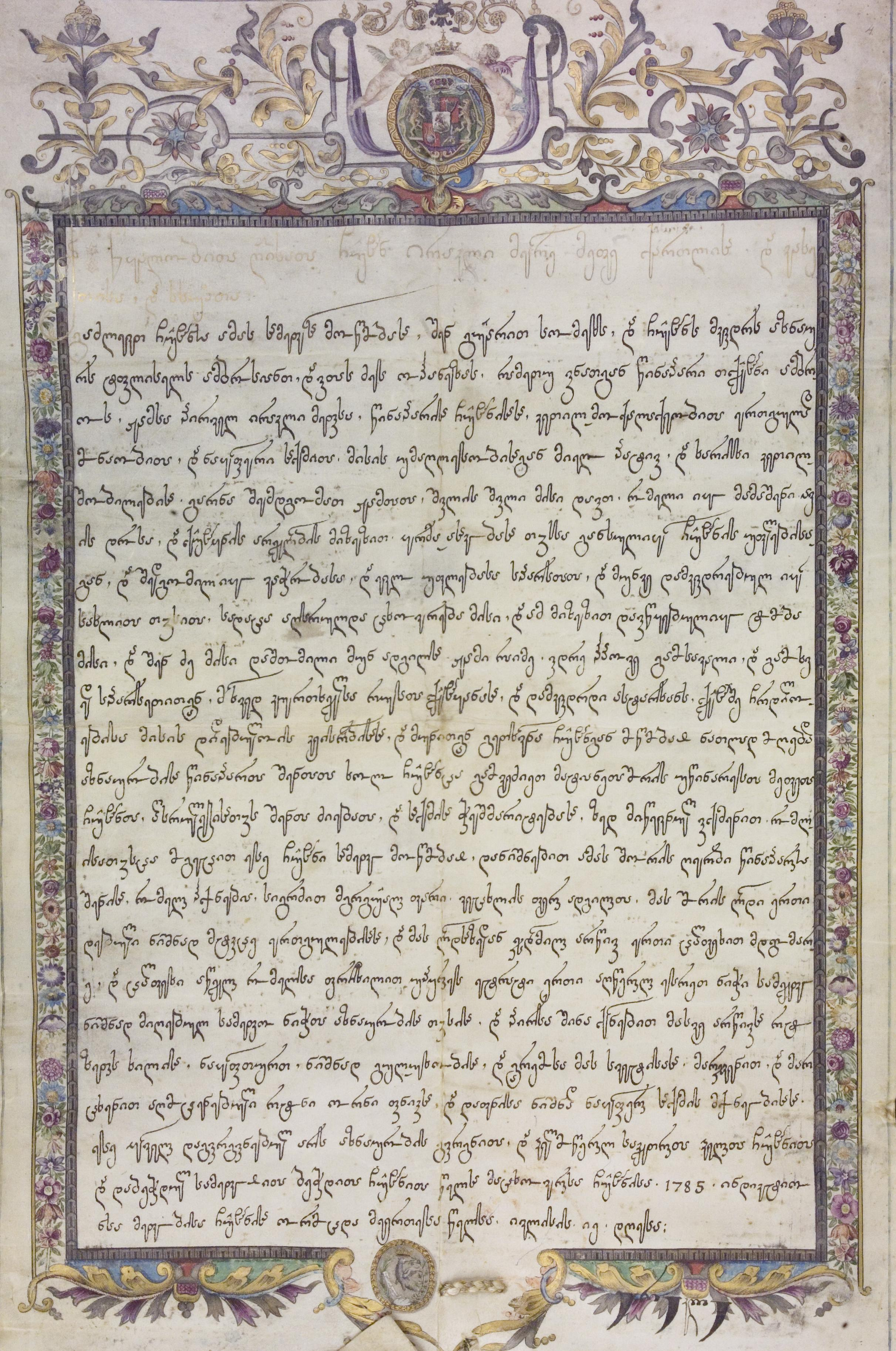 Royal charter of King Erekle II